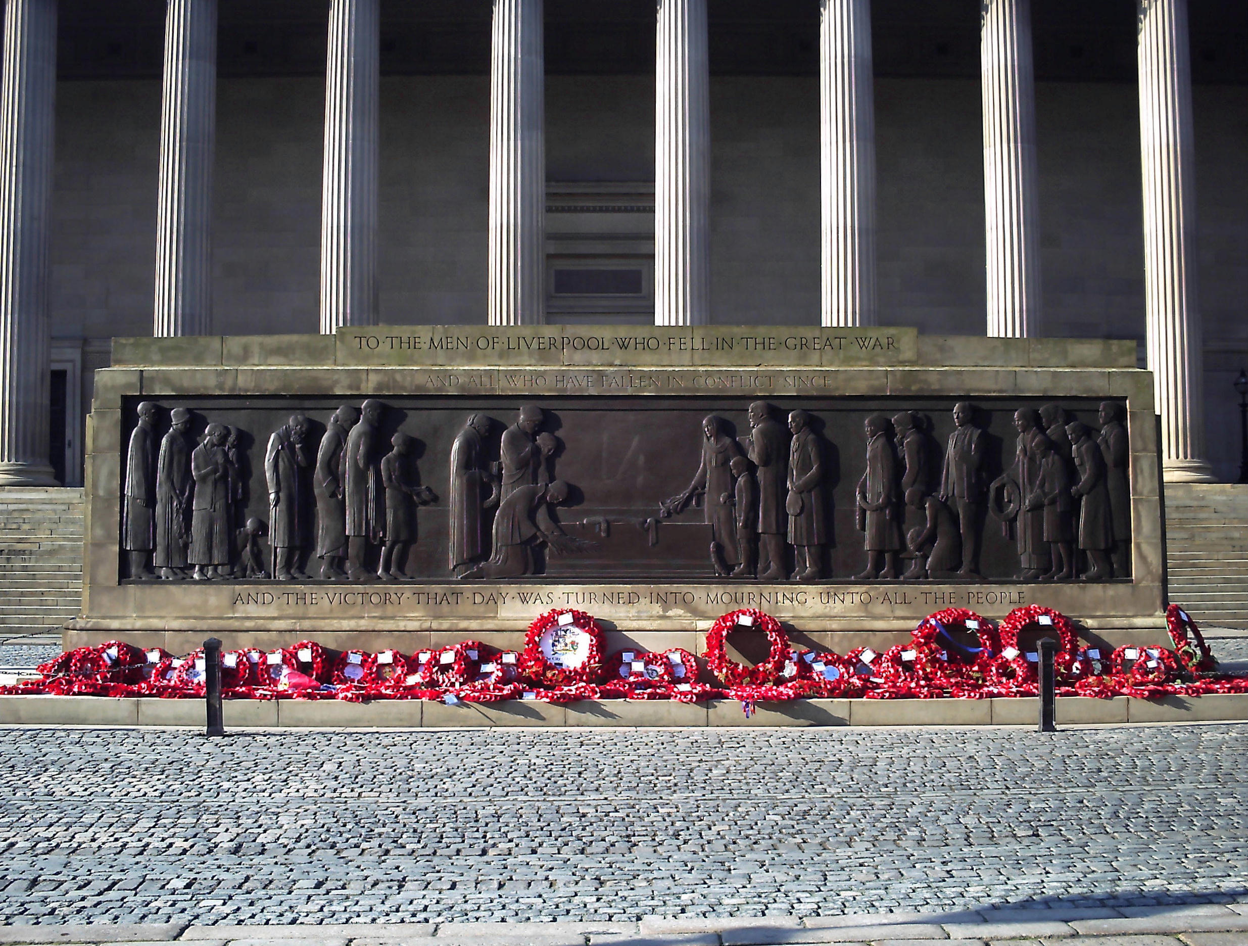 Liverpool Cenotaph